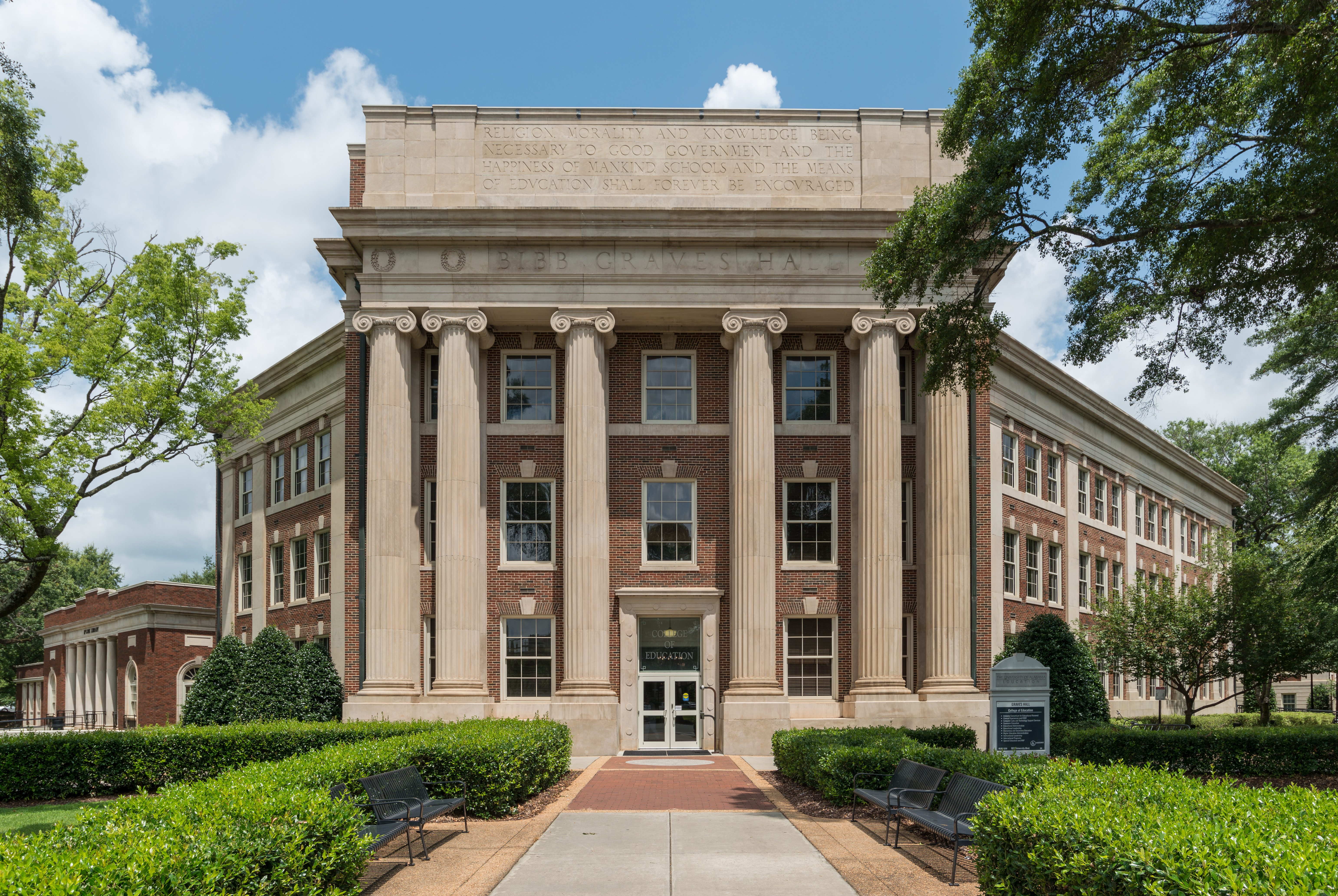 A southeast view of Bibb Graves Hall, located on the campus of the University of Alabama, Tuscaloosa